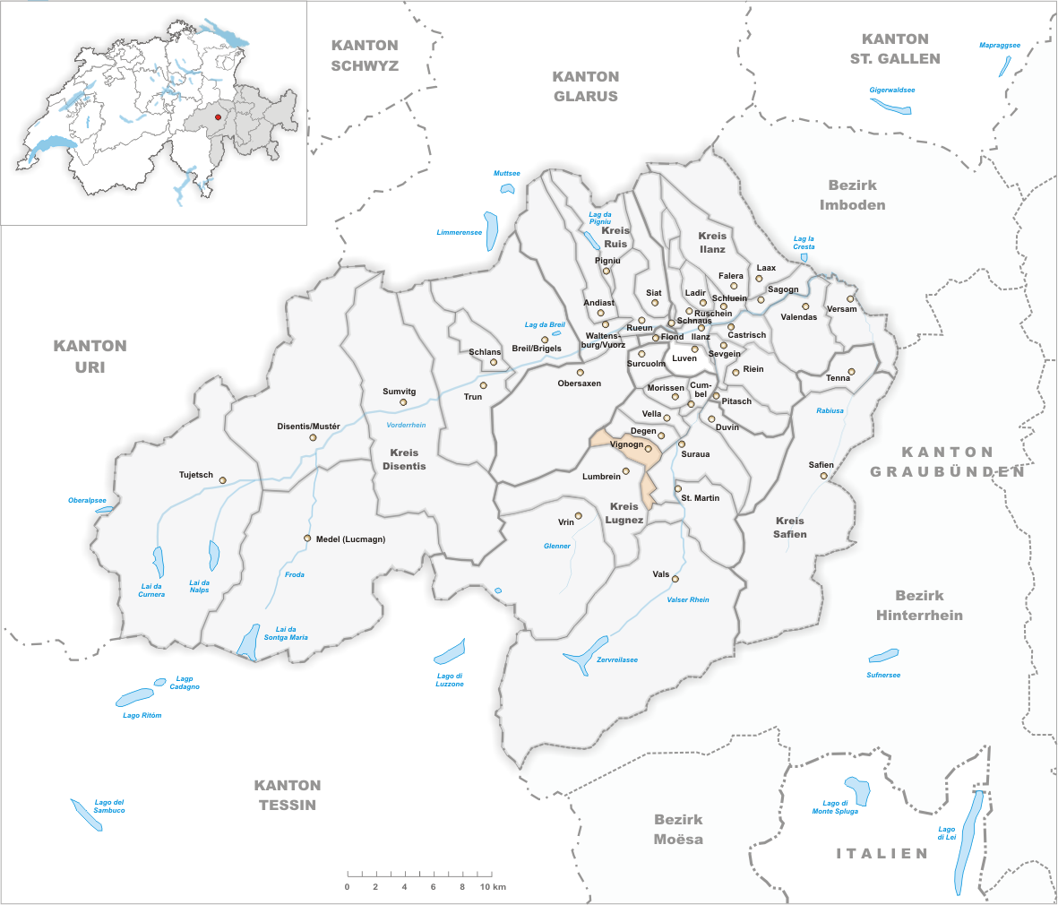 Municipality Vignogn